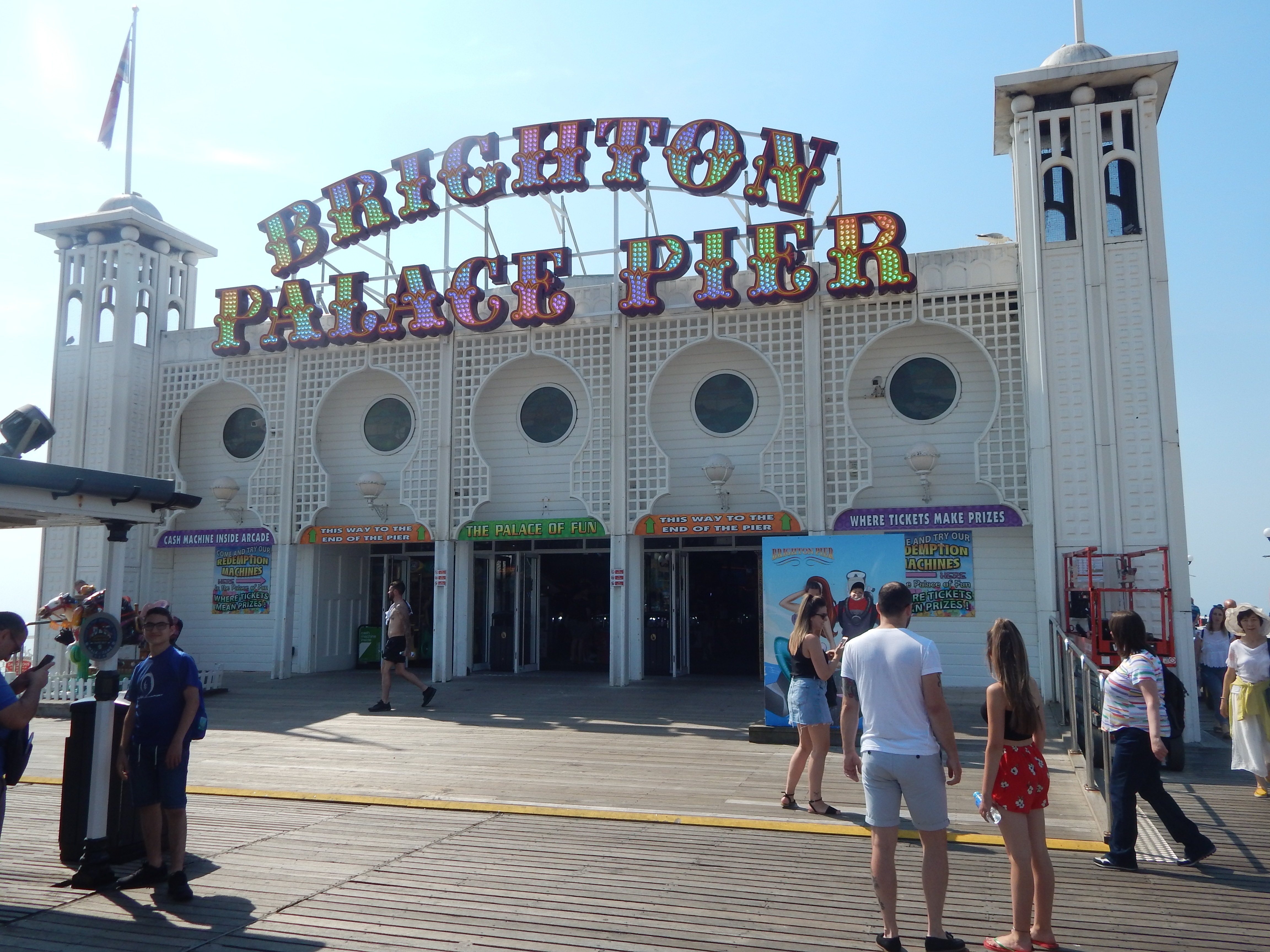 Brighton Pier in july 2018